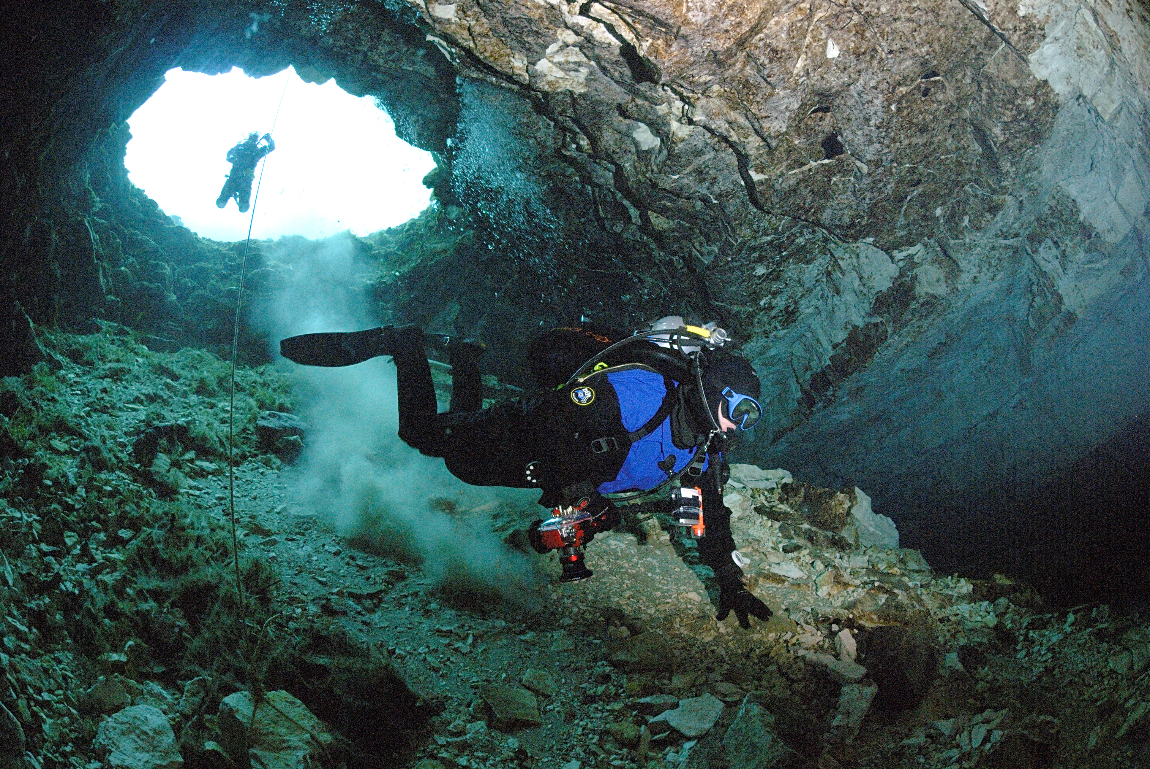 Exit from the cave